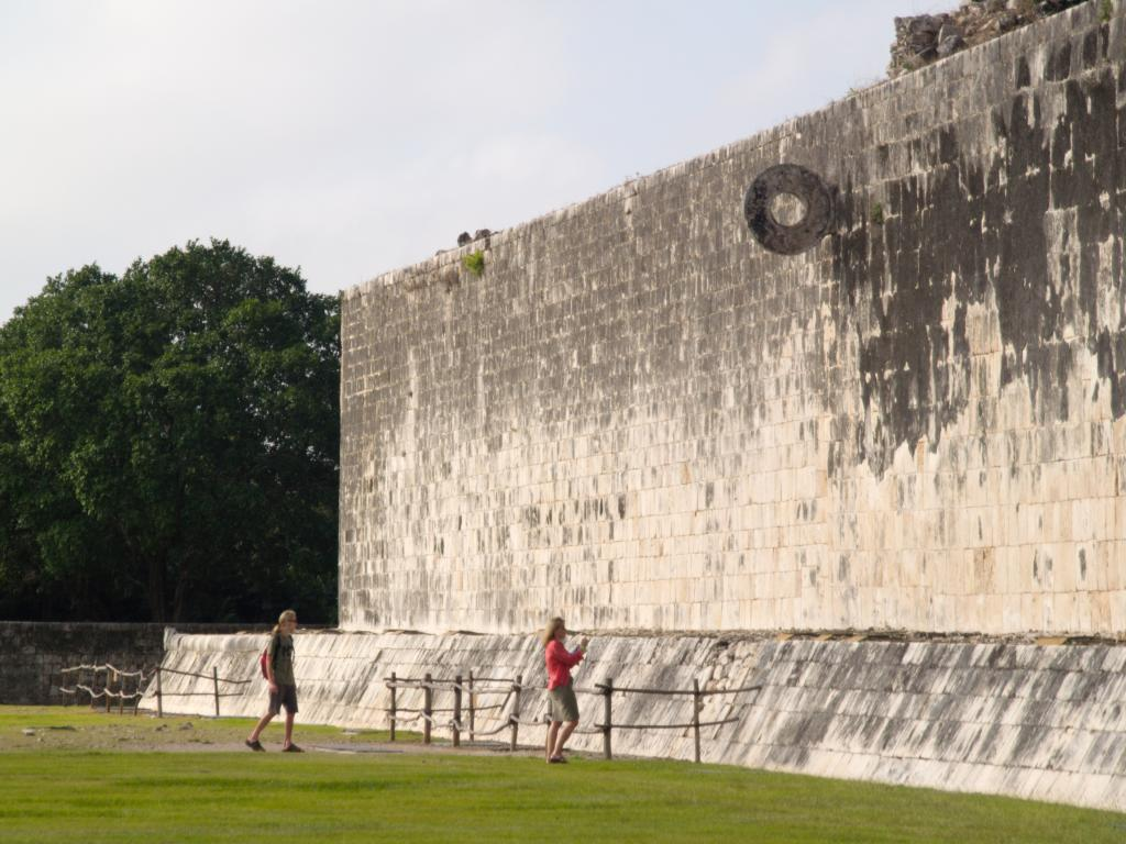 They had to get the ball into that ring. No hands, no feet. Hips only.